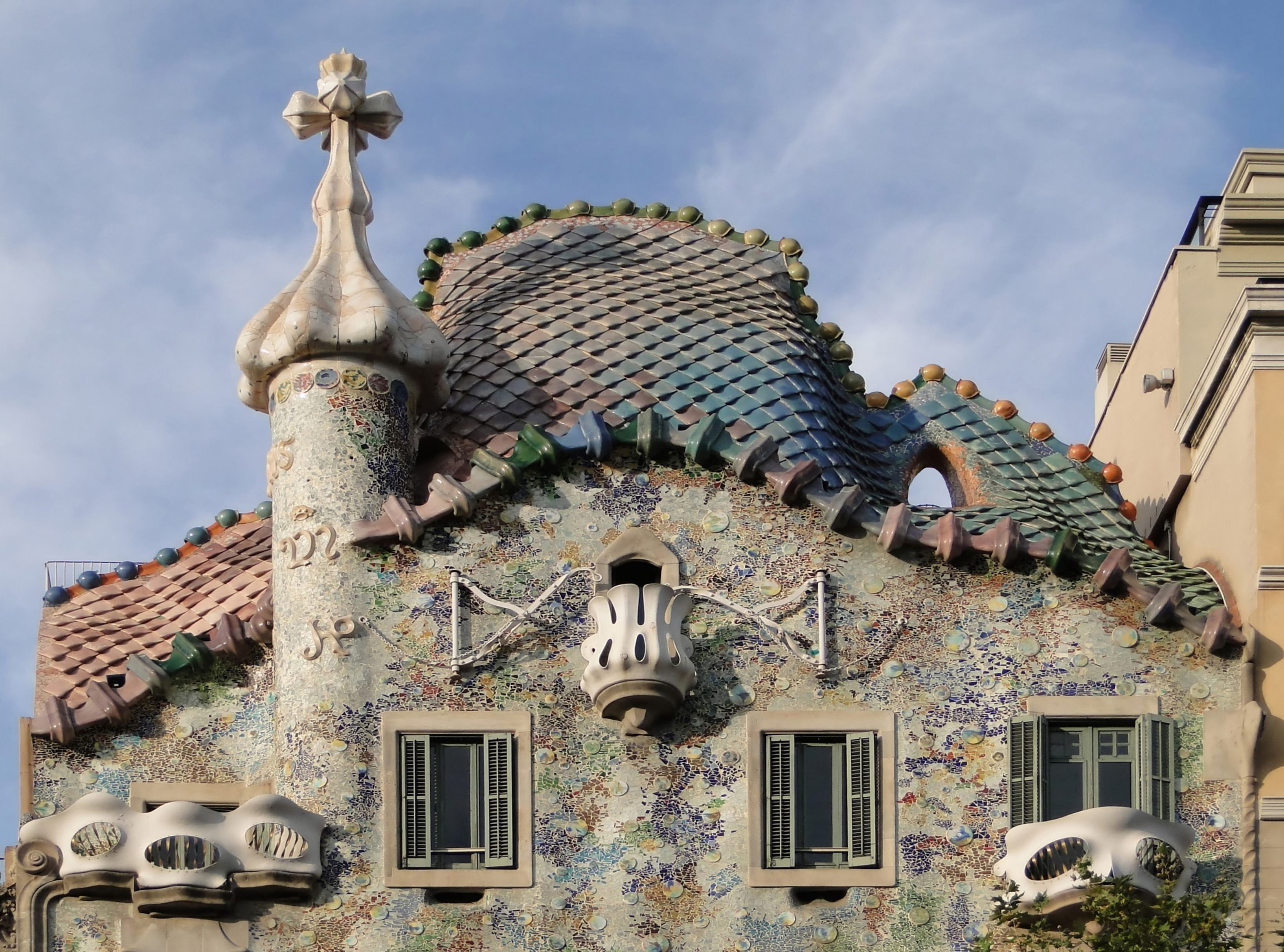 Top part of the facade of Casa Batlló designed by Antoni Gaudi between 1904 and 1906, Barcelona, Spain